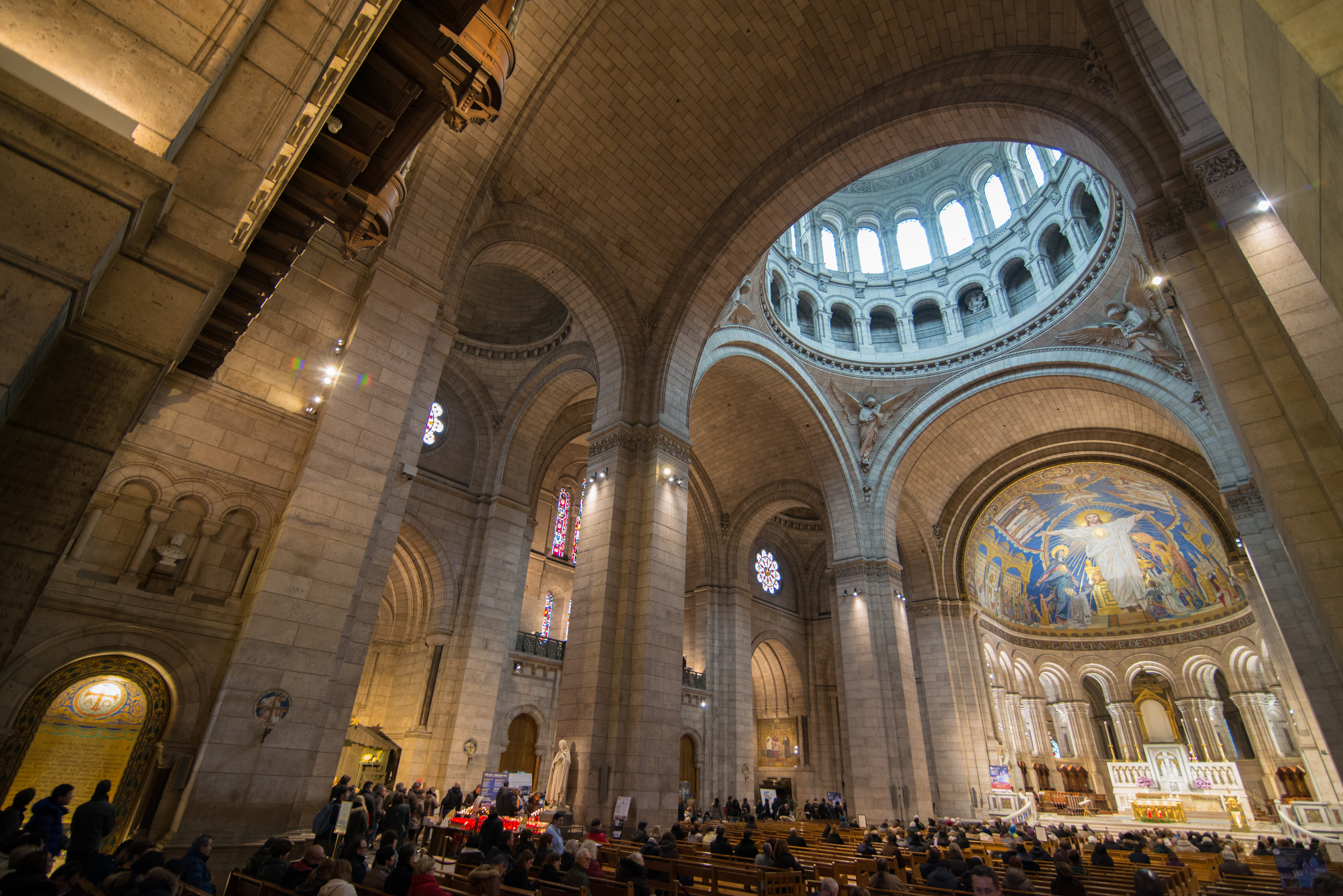 The Basilica of the Sacred Heart of Paris, commonly known as Sacré-Cœur Basilica and often simply Sacré-Cœur (Basilique du Sacré-Cœur), is a Roman Catholic church and minor basilica, dedicated to the Sacred Heart of Jesus, in Paris, France. A popular landmark, the basilica is located at the summit of the butte Montmartre, the highest point in the city. Sacré-Cœur is a double monument, political and cultural, both a national penance for the defeat of France in the 1871 Franco-Prussian War and the socialist Paris Commune of 1871 crowning its most rebellious neighborhood, and an embodiment of conservative moral order, publicly dedicated to the Sacred Heart of Jesus, which was an increasingly popular vision of a loving and sympathetic Christ. The Sacré-Cœur Basilica was designed by Paul Abadie. Construction began in 1875 and was finished in 1914. It was consecrated after the end of World War I in 1919 Sacré-Cœur is built of travertine stone quarried in Château-Landon (Seine-et-Marne), France. This stone constantly exudes calcite, which ensures that the basilica remains white even with weathering and pollution. A mosaic in the apse, entitled Christ in Majesty, created by Luc-Olivier Merson, is among the largest in the world. The basilica complex includes a garden for meditation, with a fountain. The top of the dome is open to tourists and affords a spectacular panoramic view of the city of Paris, which is mostly to the south of the basilica